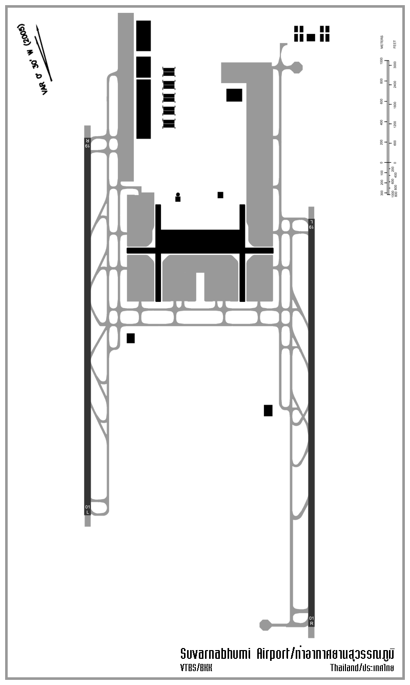 Suvarnabhumi Airport, Thailand See phrase 2 - 80px|border